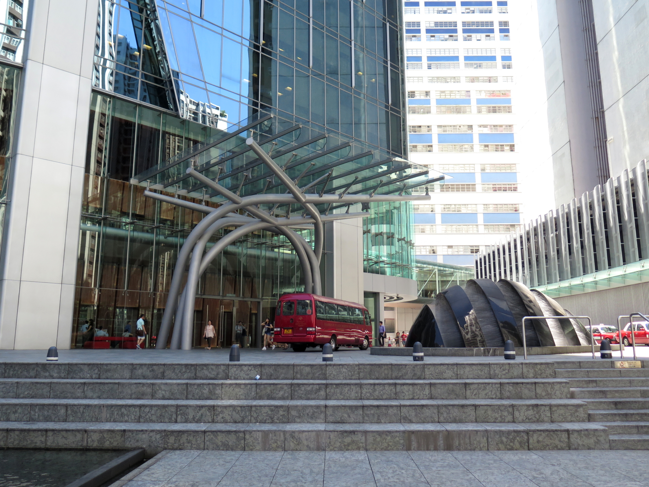 One Island East Drop off area